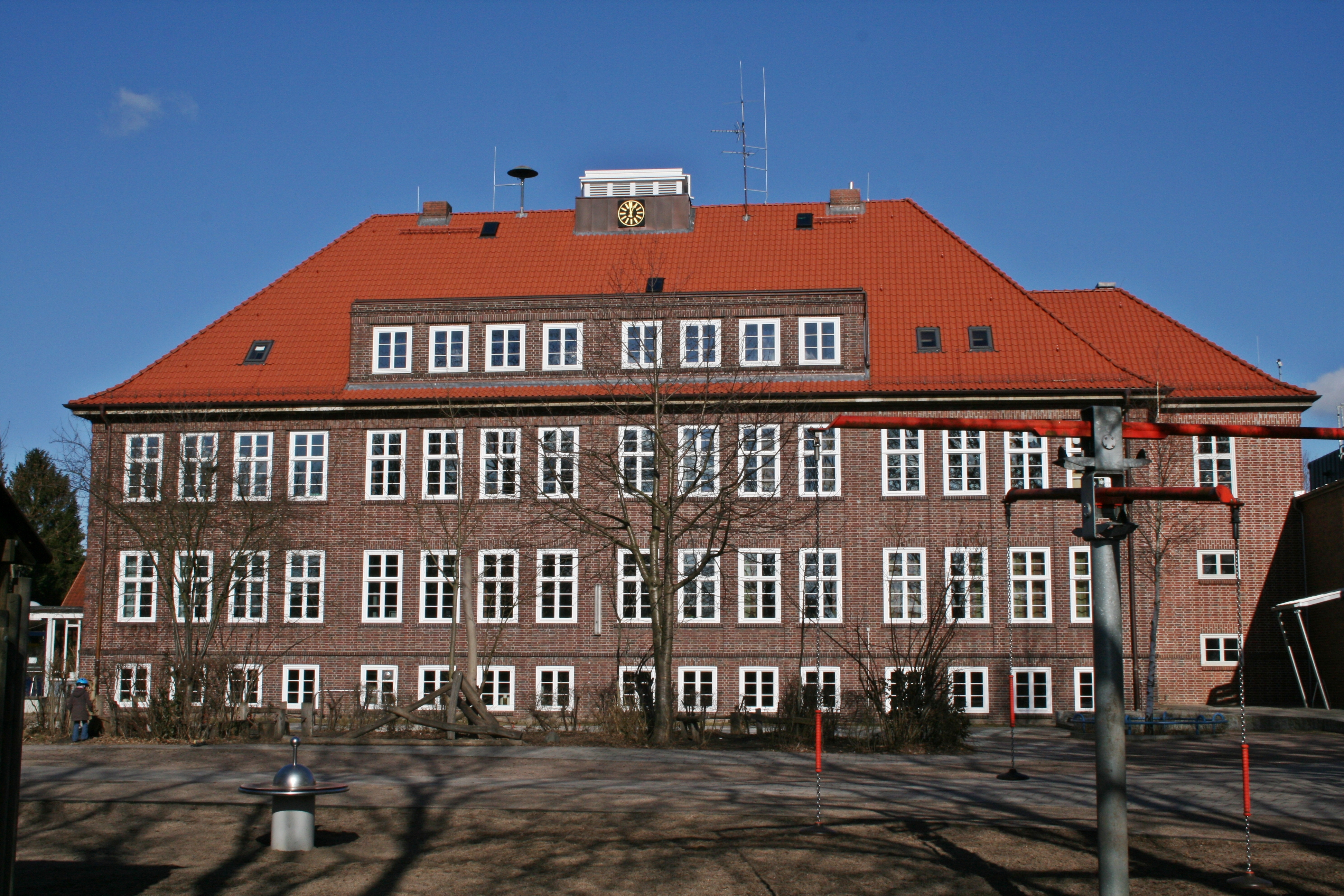 The School in Nettelnburg, belonging to the cultural heritage monuments in Hamburg